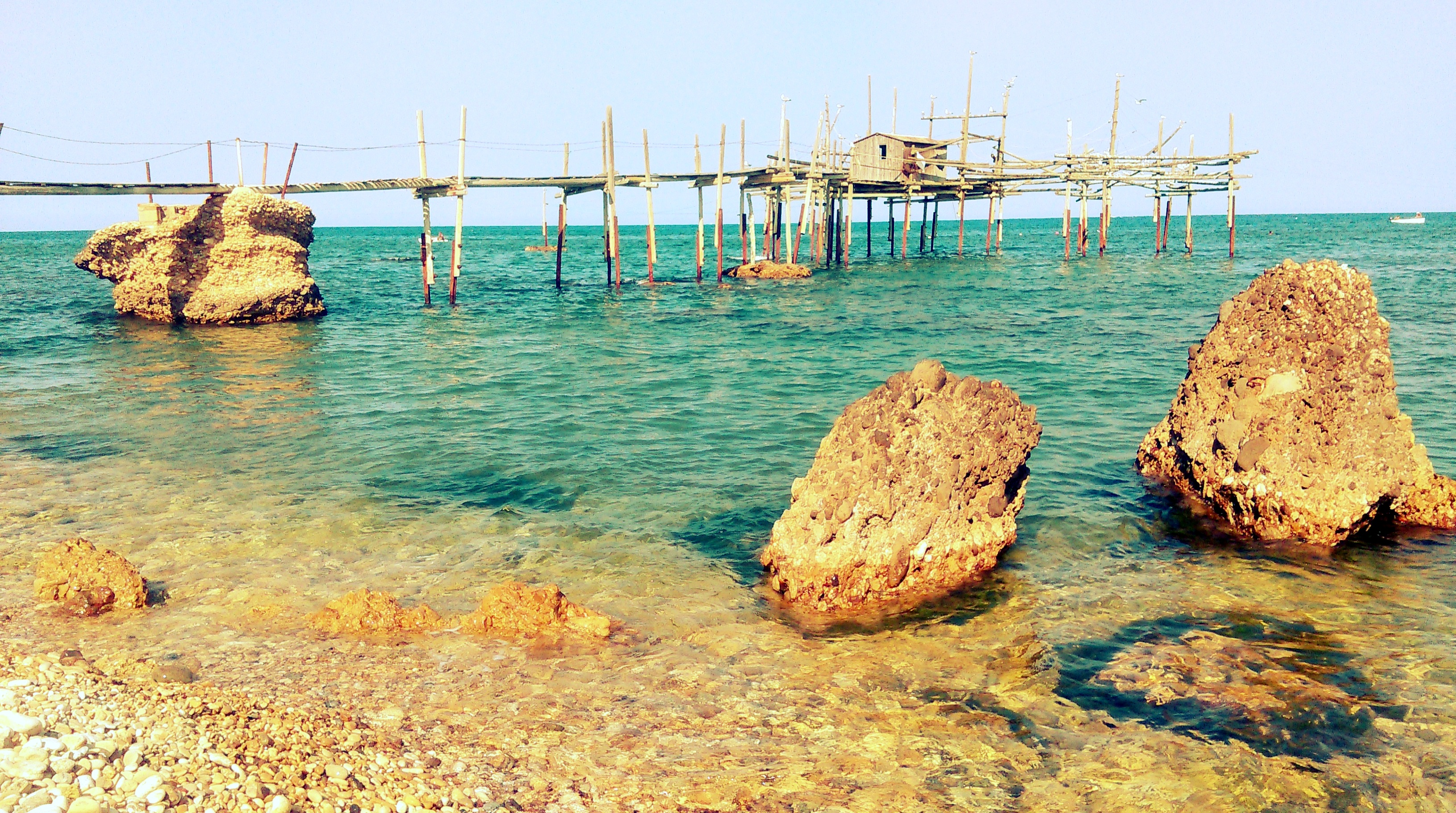 trabocco fishing machine and beach